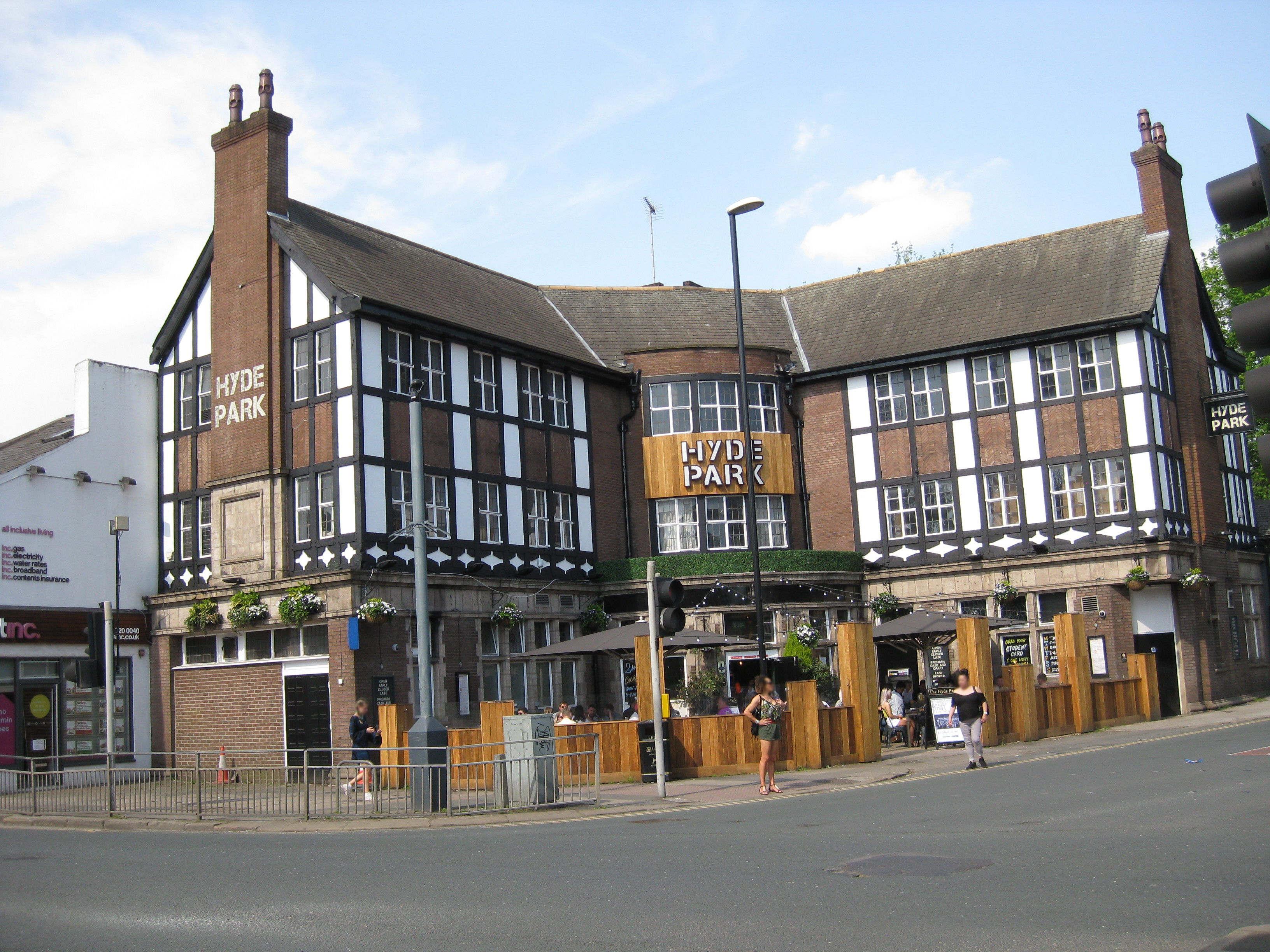 The Hyde Park pub, 2 Headingley Lane, Leeds, LS6 2AS. Corner of Headingley Lane (left) and Woodhouse Street, Hyde Park Corner.